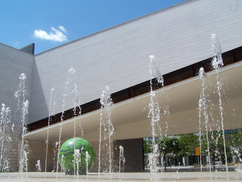 Pavilion of Science Knowledge — in Parque das Nações, Lisbon.